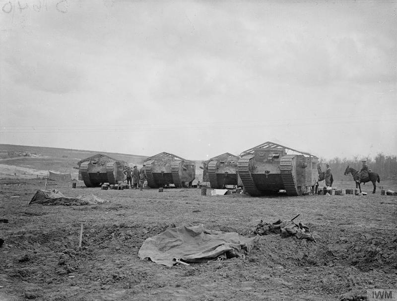 The Battle of the Somme, July-november 1916 Battle of Flers–Courcelette. Four Mark I tanks filling with petrol. Chimpanzee Valley, 15 September 1916, the day tanks first went into action.